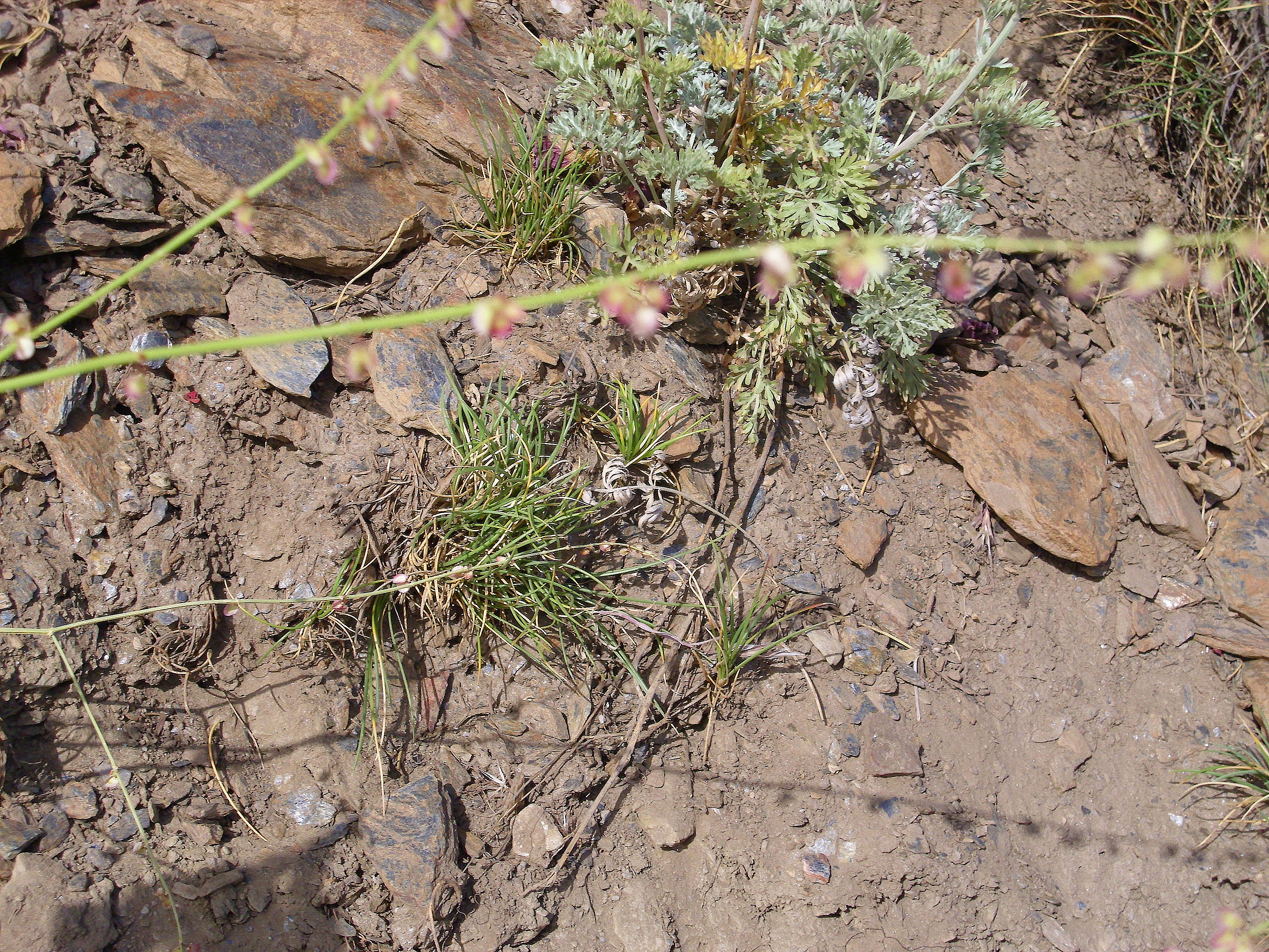 Isoetes velatum, close up Sierra Nevada, Spain